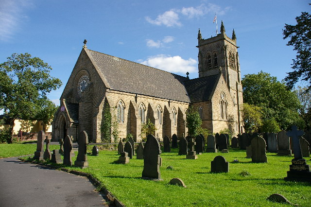 St Matthew's parish church, Little Lever, Greater Manchester, seen from the west